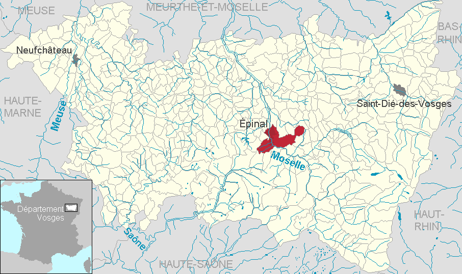 Épinal in the department of Vosges, Lorraine, France